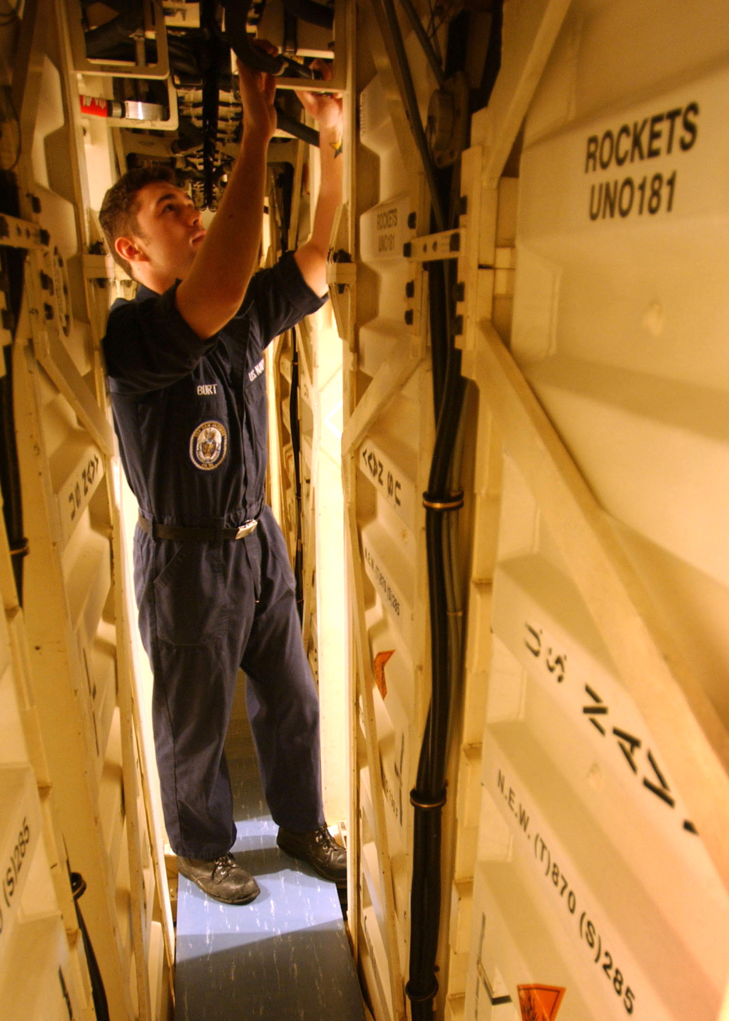 At sea aboard USS San Jacinto (CG 56) Mar. 3, 2003 -- Gunner’s Mate 2nd Class Justin S. Burt, assigned to the weapons department's WF-01 division, inspects a deluge hose for water leaks below decks while inside one of the ship’s MK-41 Vertical Launching Systems (VLS) aboard the guided missile cruiser. In the event of high temperatures caused by fire or system failure, the deluge system floods the missile canister with water to keep the ordnance cool. San Jacinto is on deployment in support of Operation Enduring Freedom. U.S. Navy photo by Photographer's Mate 1st Class Michael W. Pendergrass. (RELEASED)